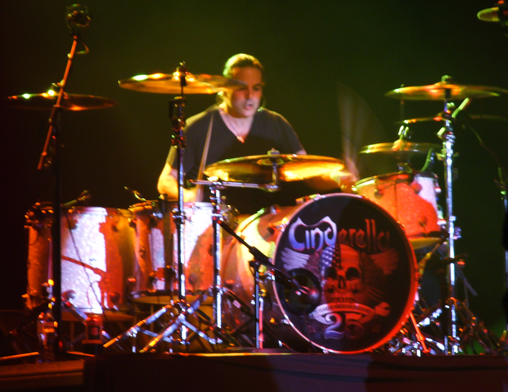 The American drummer Fred Coury with Cinderella at Festivalna Hall in Sofia, Bulgaria.